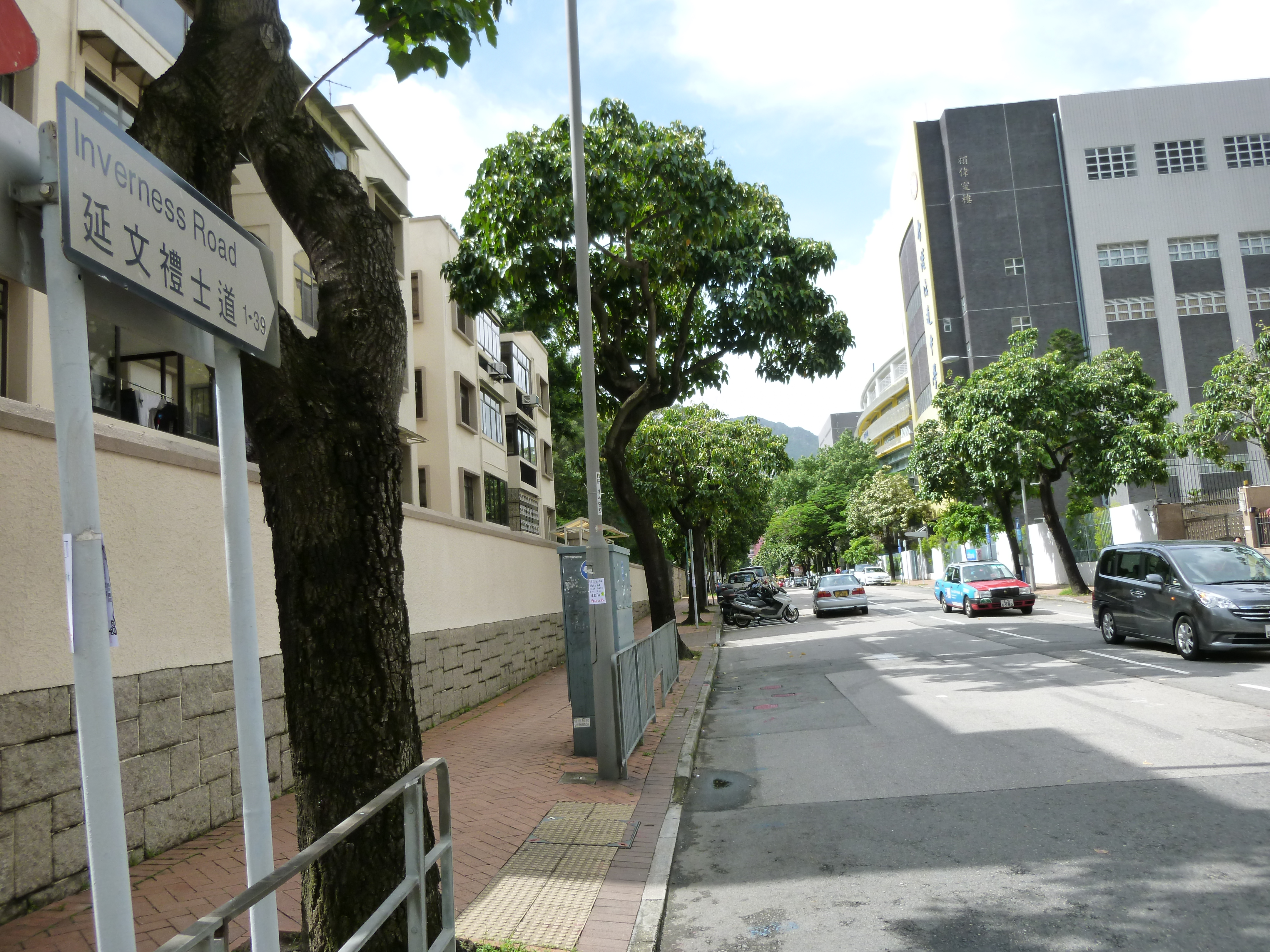 Inverness Road (Kowloon City, Kowloon, Hong Kong) 中文（香港）: 延文禮士道 (香港九龍九龍仔)